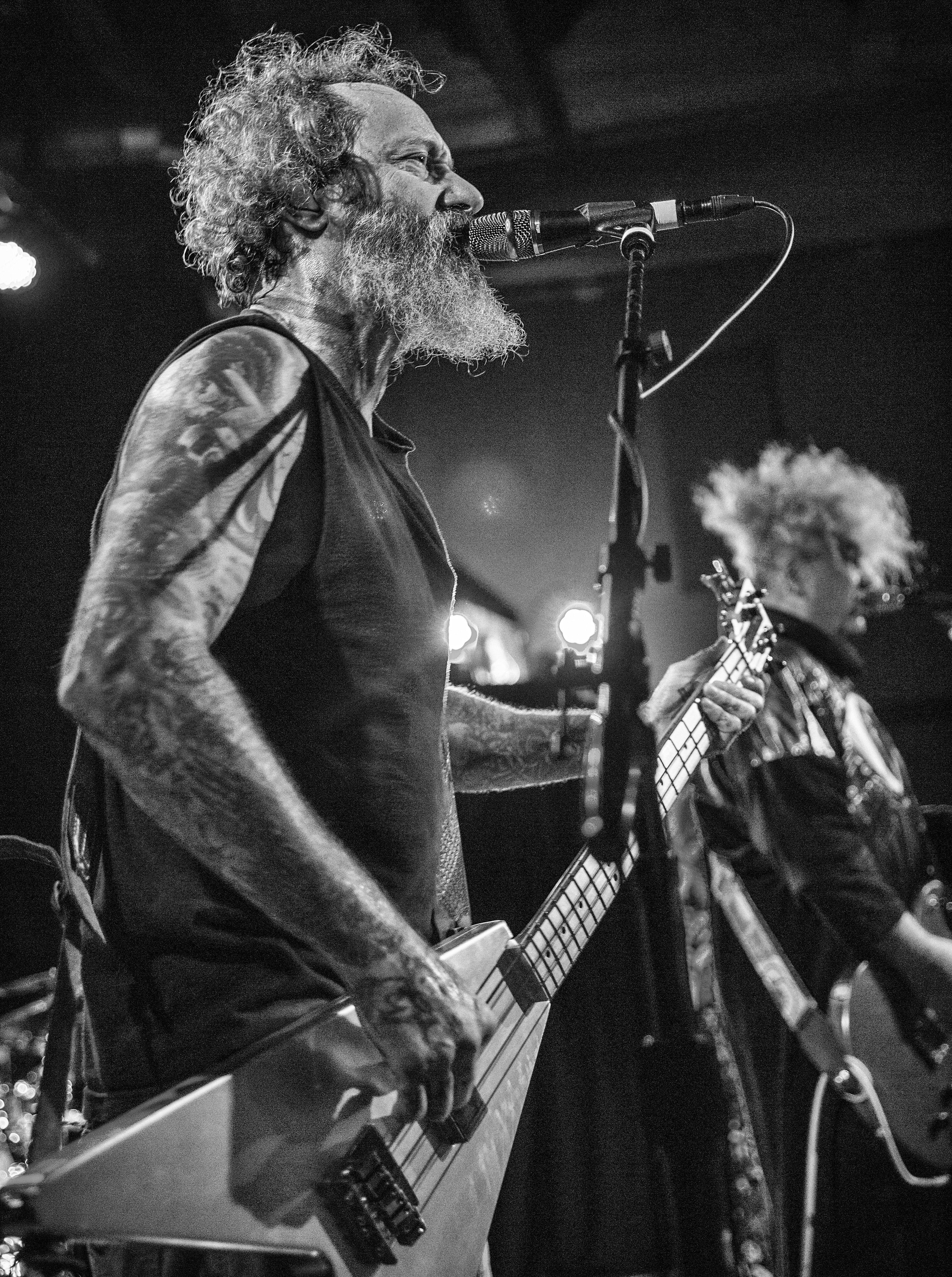 Jeff Pinkus playing with Melvins at a sold-out show in Madison, Wisconsin on 7/30/18